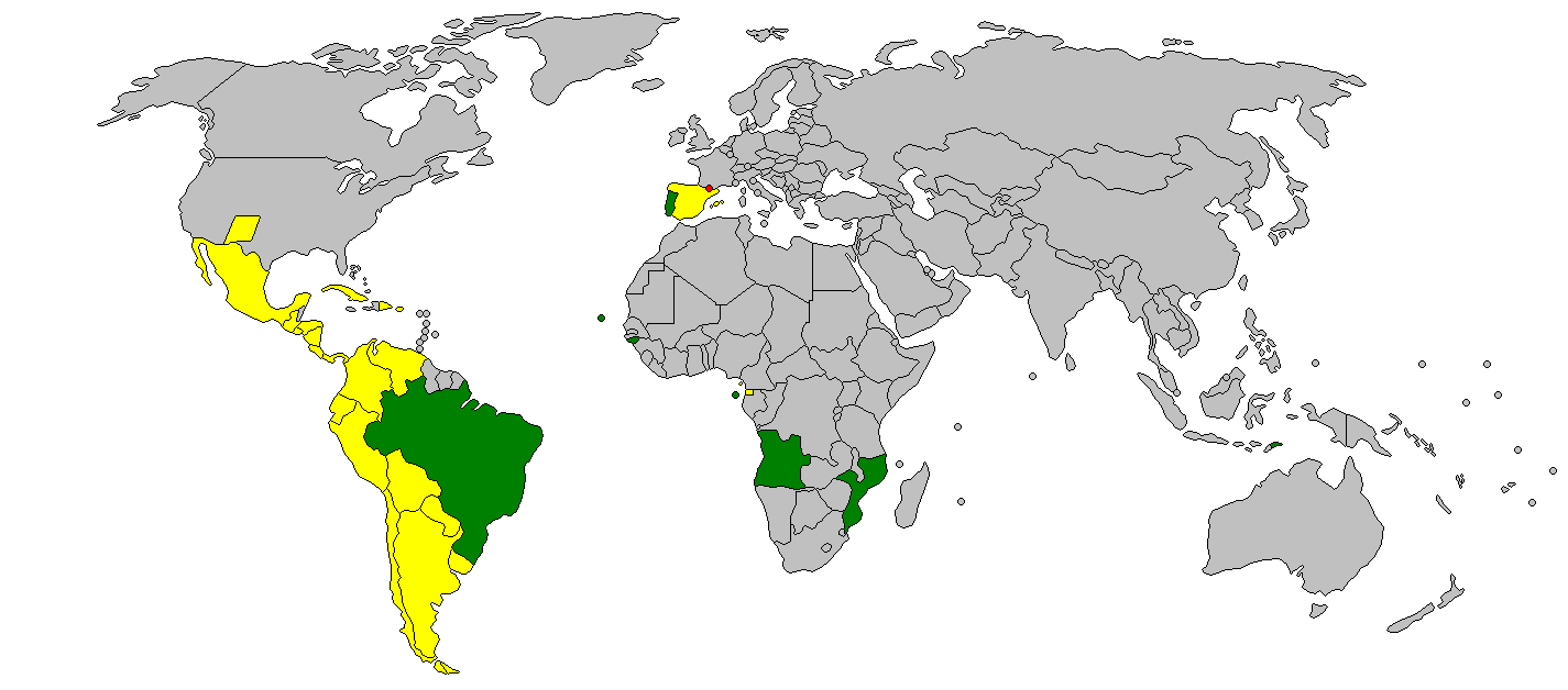 Ibero-Romance languages in the Iberian Peninsula and around the world.